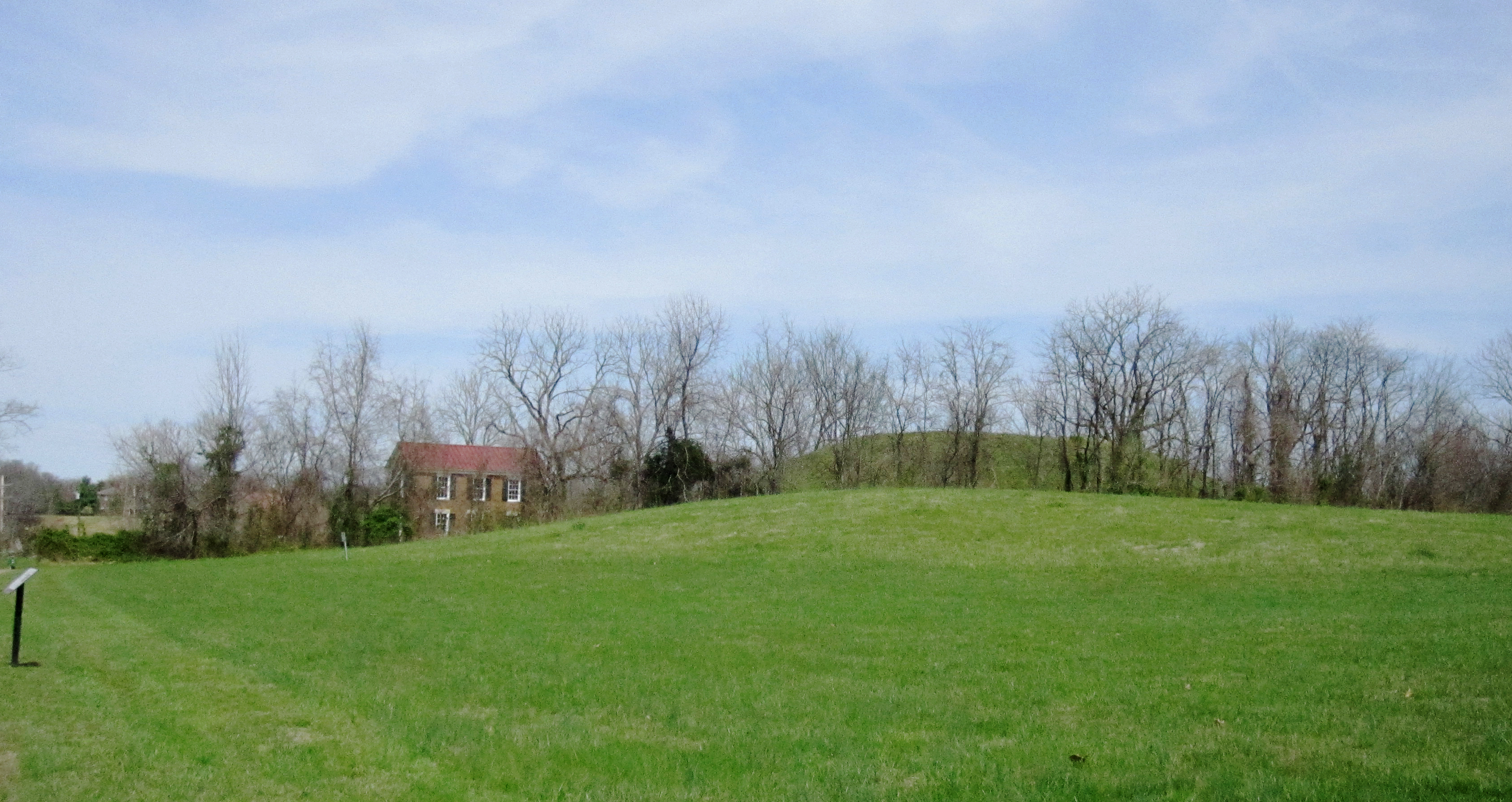 Mounds No. 1 & 2 at the Fewkes Group Archaeological Site, with Boiling Spring Academy in the background.